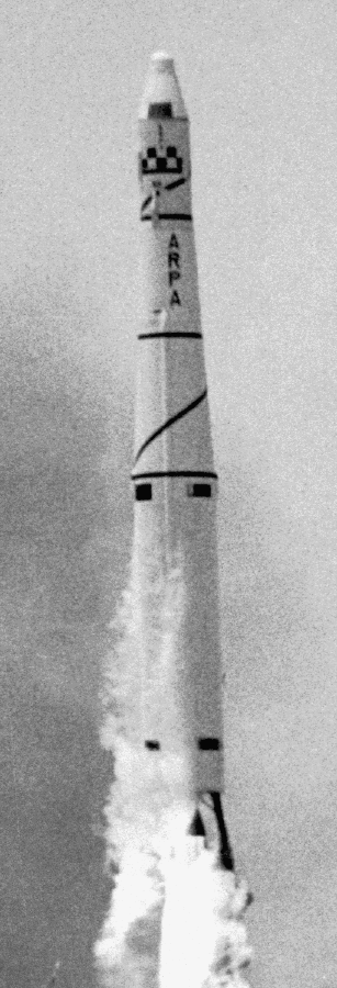 Unsuccessful launch of the Thor Agena A rocket with the Discoverer 3 satellite (Corona KH-1 type), 3 June 1959.